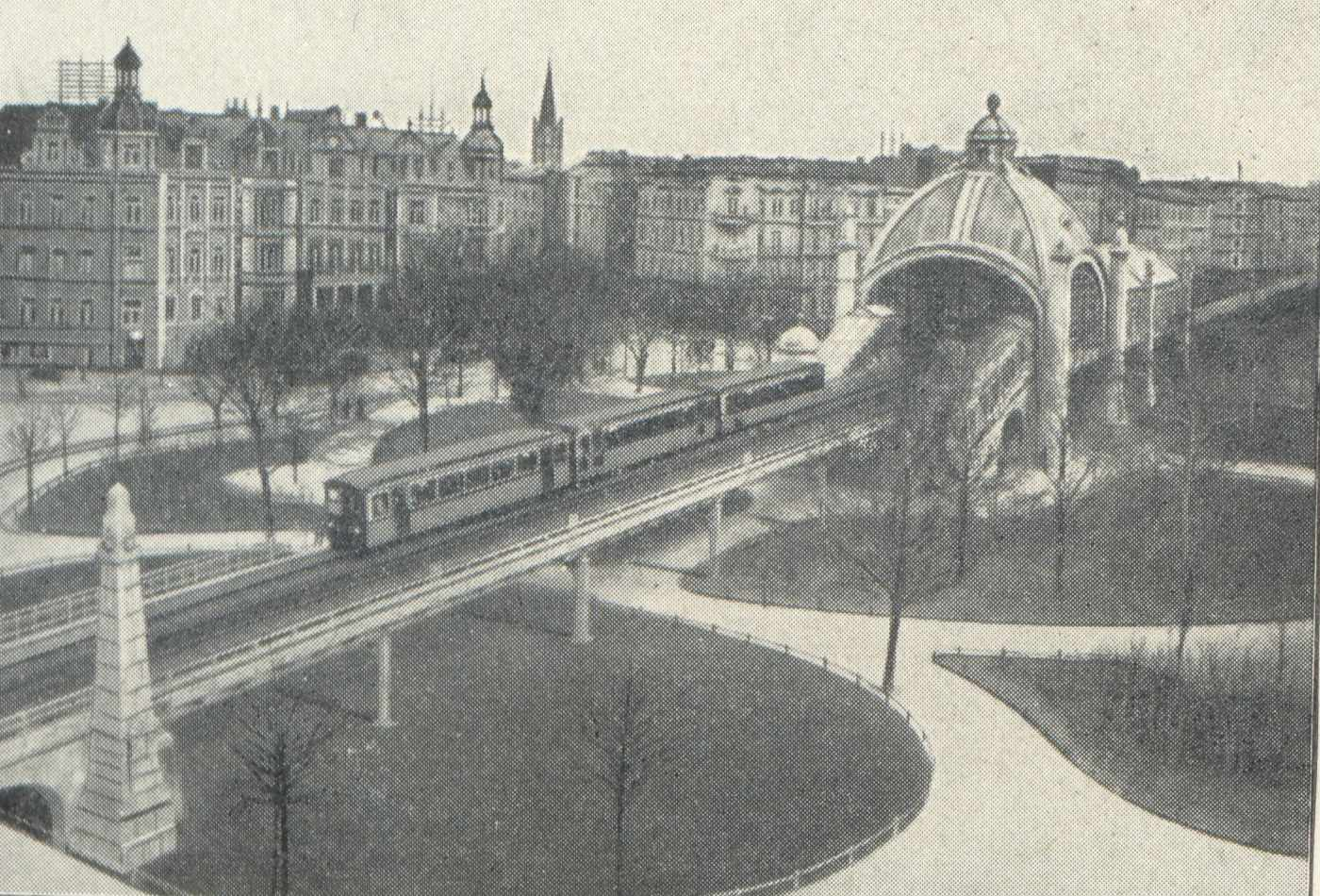 Nollendorfplatz underground station, Berlin, Germany